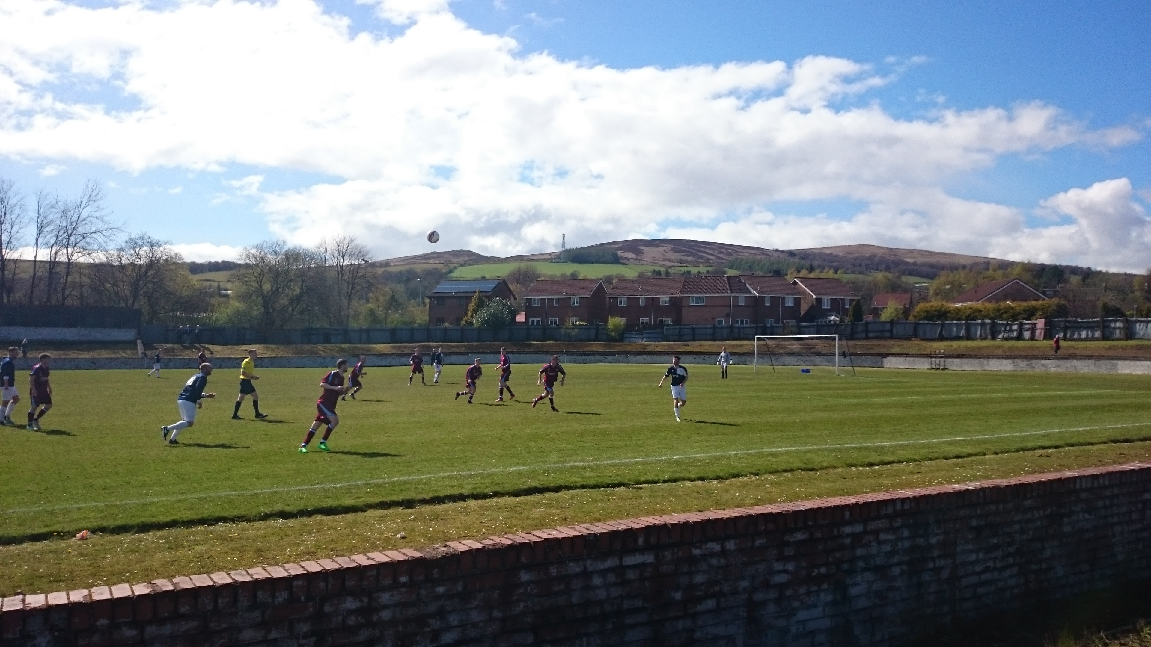 Millburn Park, Alexandria, home of Scottish Junior side Vale of Leven FC